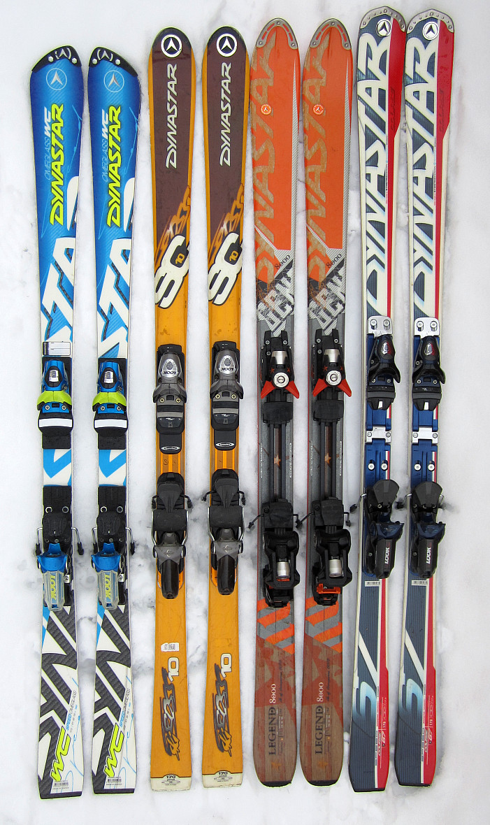 Various Dynastar Skis, from right to left: 2007 Dynastar Speed Course (race carver), length 178 cm, sidecut 112-67-98, radius 17 m 2007 Dynastar Legend 8000 (allmountain skis with alpine touring binding), length 172 cm, sidecut 116-80-102, radius 19 m 2003 Dynastar Skicross SC 10 (cross carver), length 170 cm, sidecut 105-66-94, radius 17,5 m (calculated) 2013 Dynastar Speed Omeglass WC (FIS legal slalom race ski), length 165 cm, sidecut 118-66-101, radius 13 m